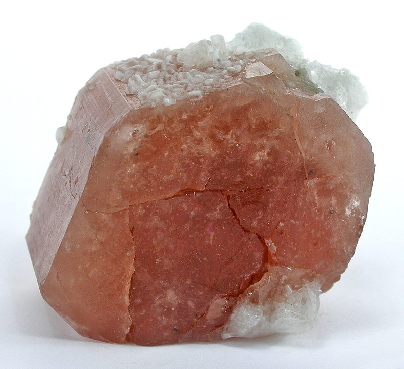 Apatite-(CaF) Locality: Shengus (Shingus), Haramosh Mts., Skardu District, Baltistan, Northern Areas, Pakistan (Locality at ) Size: 4.1 x 3.9 x 2.9 cm. This is a very unusual apatite specimen from a new find in the area, not to be confused with the typical Pakistani apatites from Chumar Bakhoor. This piece has a unique rich maroon-pink color that is apparently characteristic of this pocket, flanked by a few sprays of attached white cleavelandite matrix. The apatite is almost complete all around, with just one of the smaller edges on one side only, showing a break; and can be displayed in several orientations. The backside is complete as well - it is almost a floater.